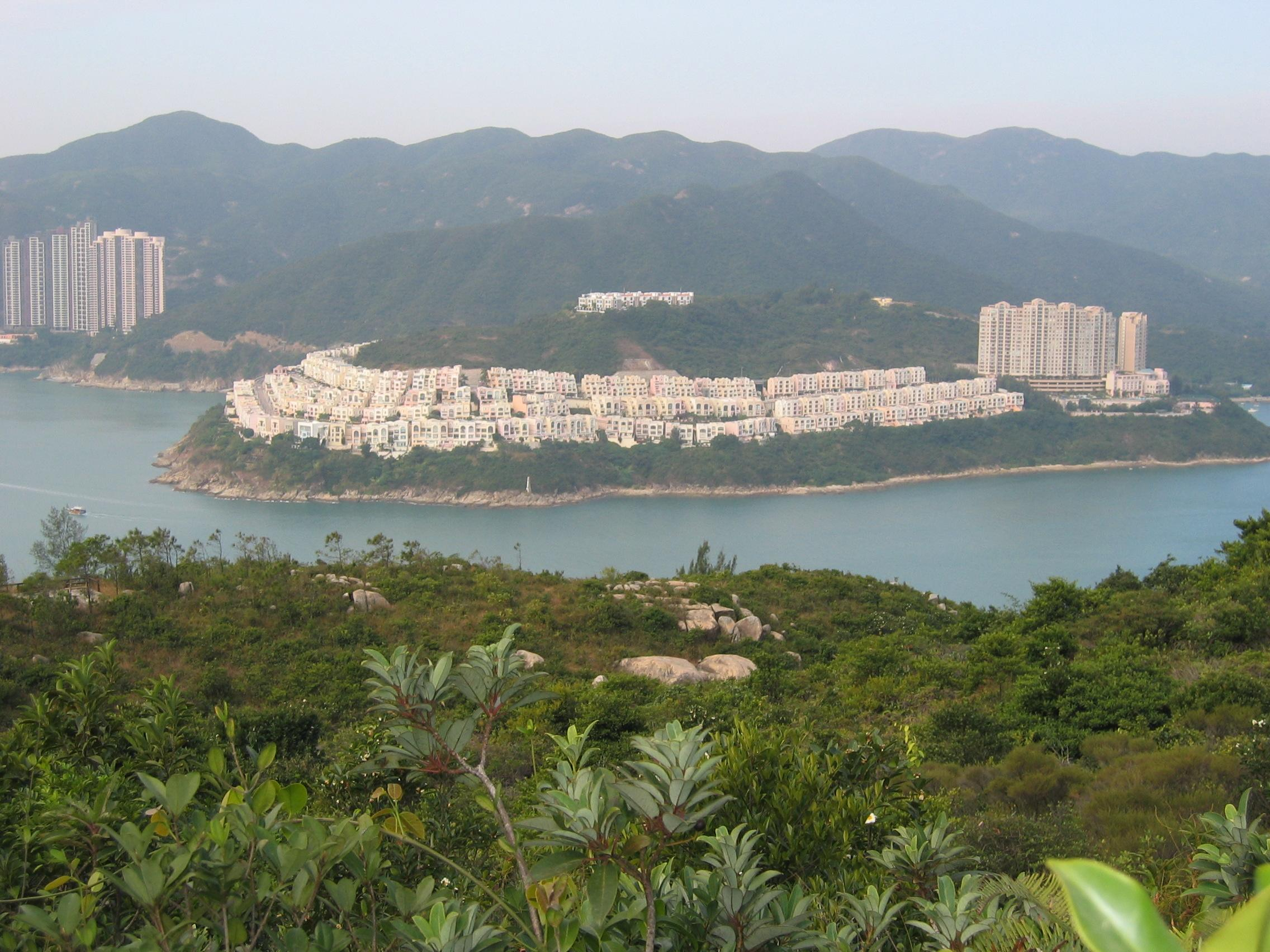 紅山半島 (Redhill Peninsula)，是zh:香港島南區的一個豪宅屋苑。 Author is me.